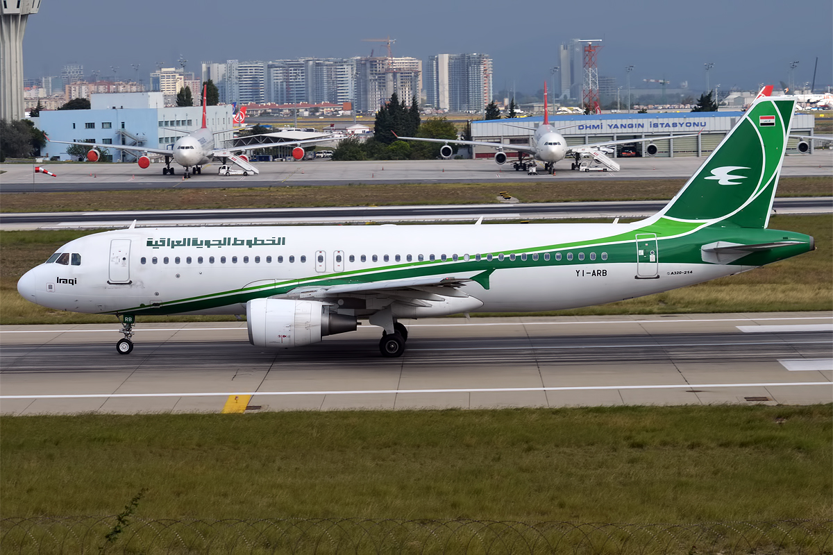 Iraqi Airways, YI-ARB, Airbus A320-214